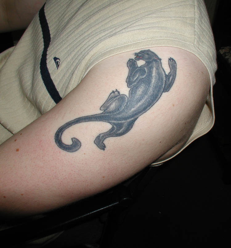 Tattoo of a black panther.